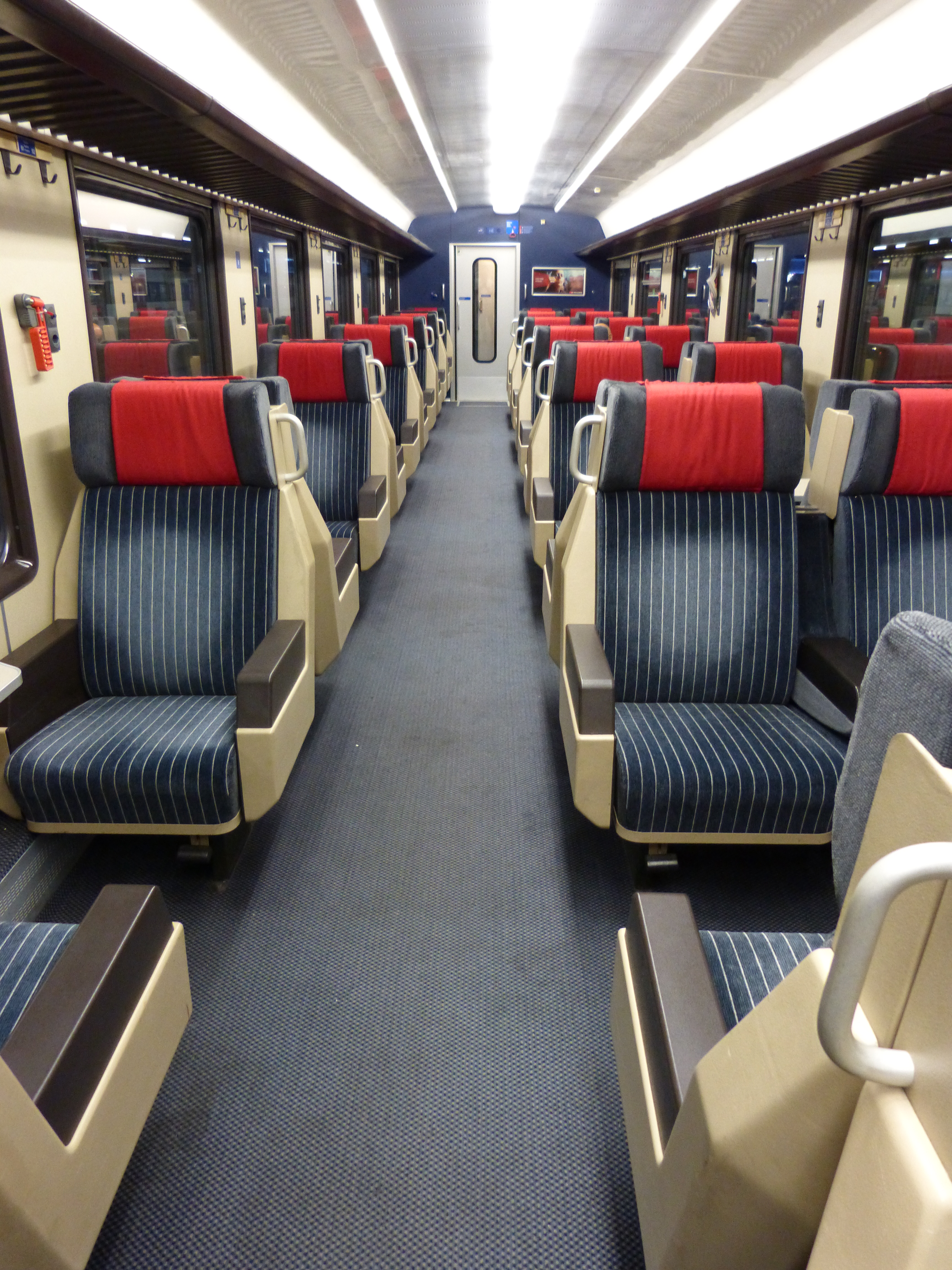 Corridor of the car SBB CFF FFS A 50 85 10-75 198-7 in the InterRegio 1741 from Geneva Airport to Brig.